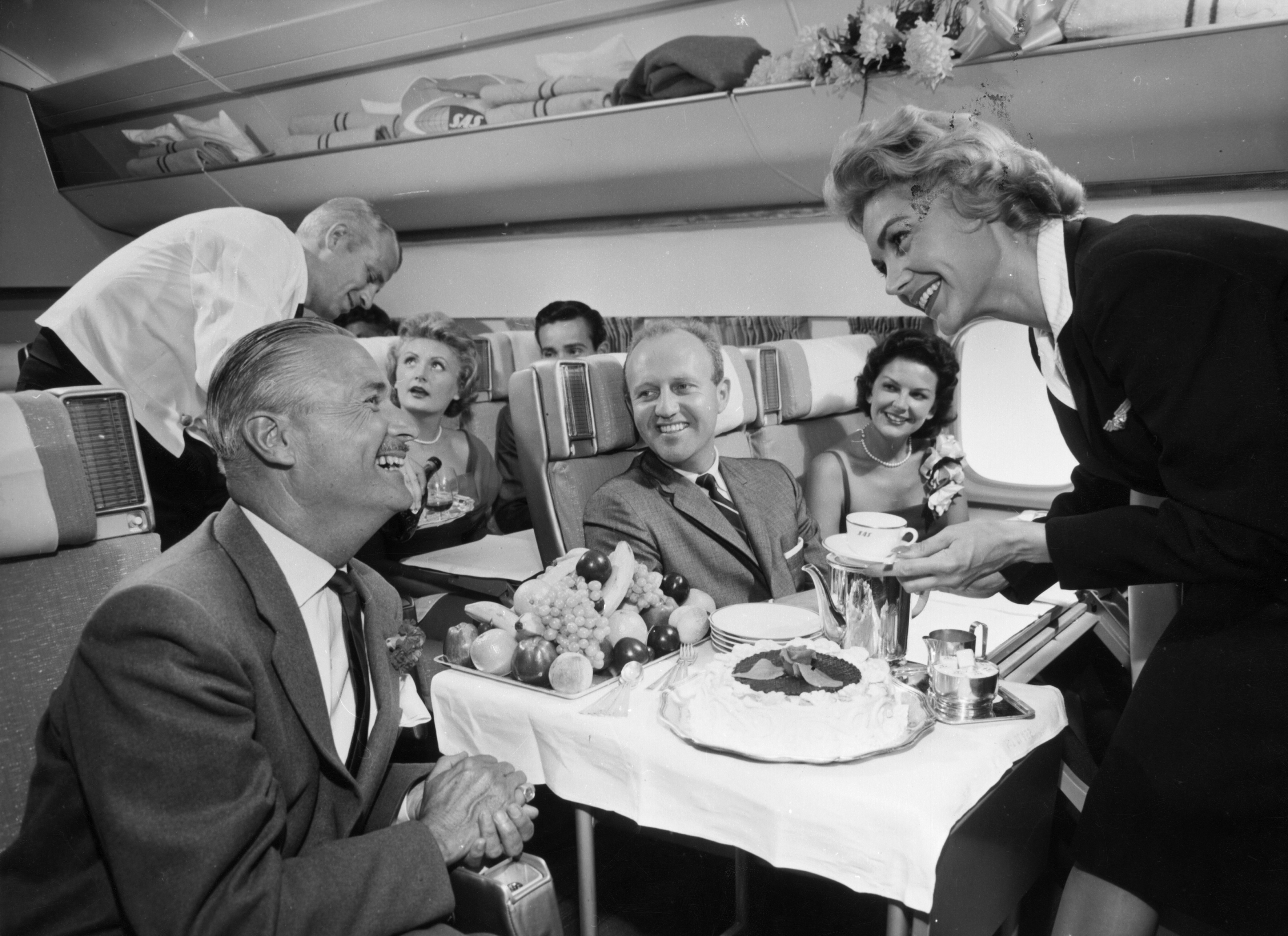 SAS DC-8-33. Interior, service on board, cabin 1960s, first class